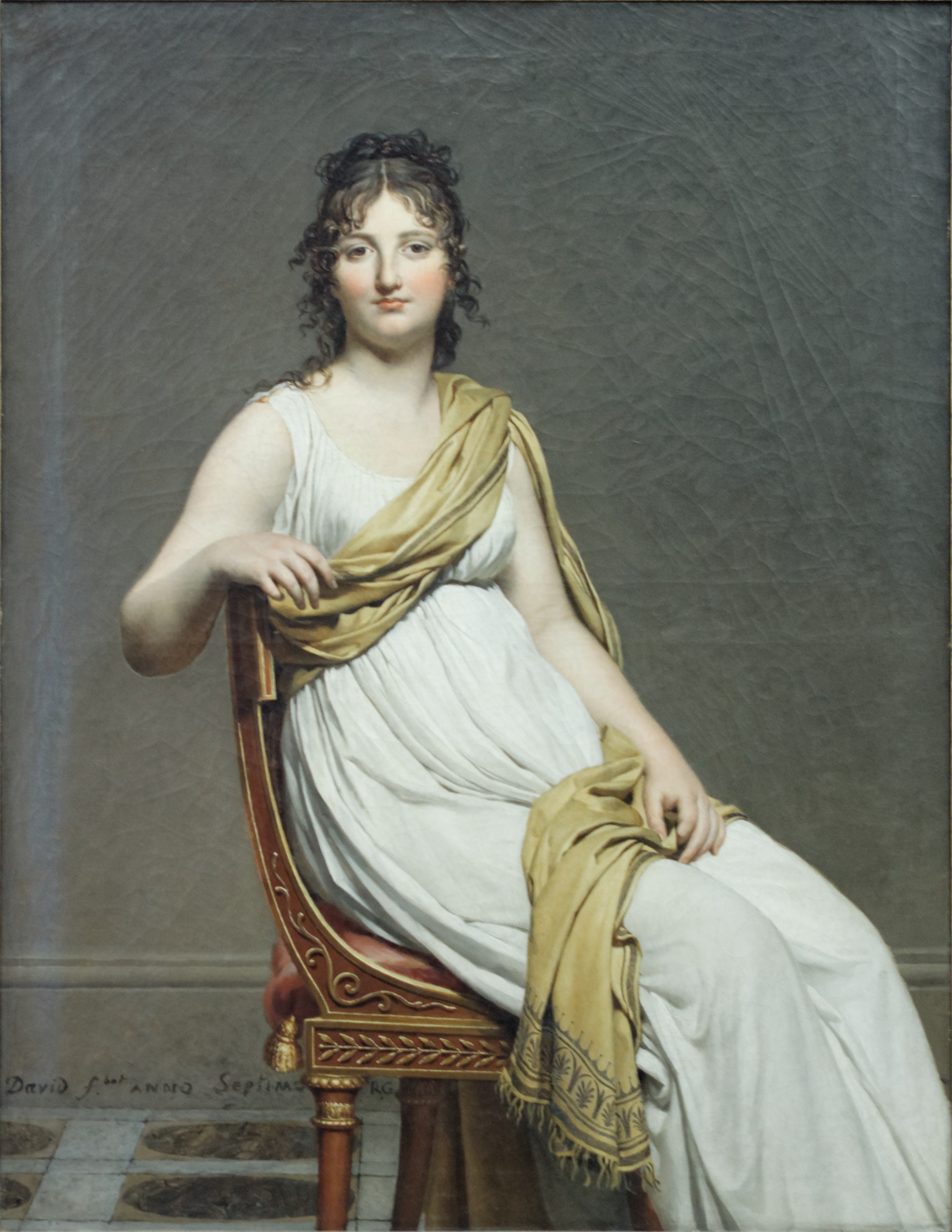 Madame Raymond de Verninac (Portrait of Madame de Verninac), born Henriette Delacroix, elder sister of Eugène Delacroix. Signature: “David fecit anno Septimo” (David did this in the year seven – i.e. of the French revolutionary calendar).